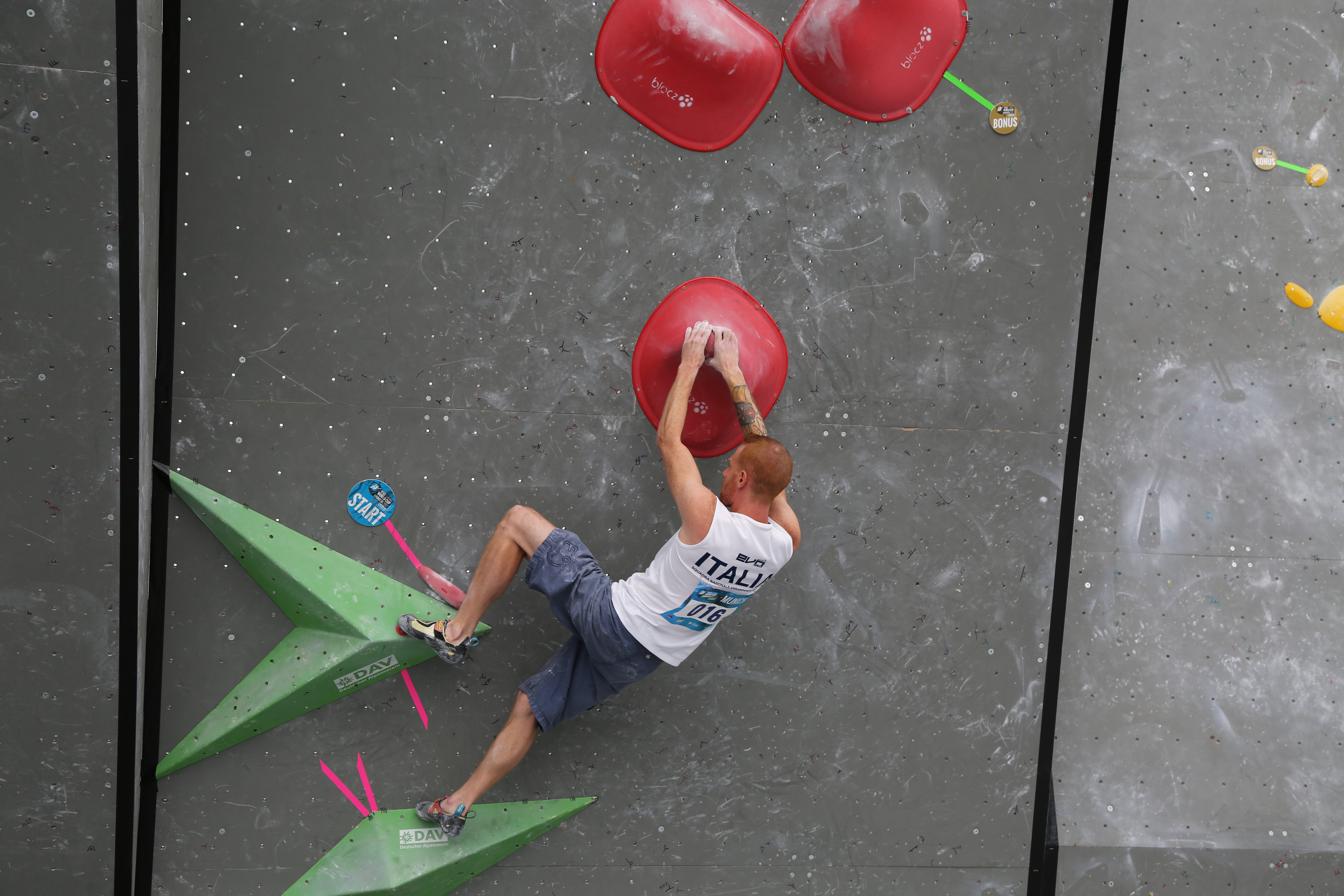 Gabriele Moroni ITA at the Boulder Worldcup 2017 in Munich, Germany.